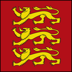 Coat of Arms of the Community of Freienbach SZ